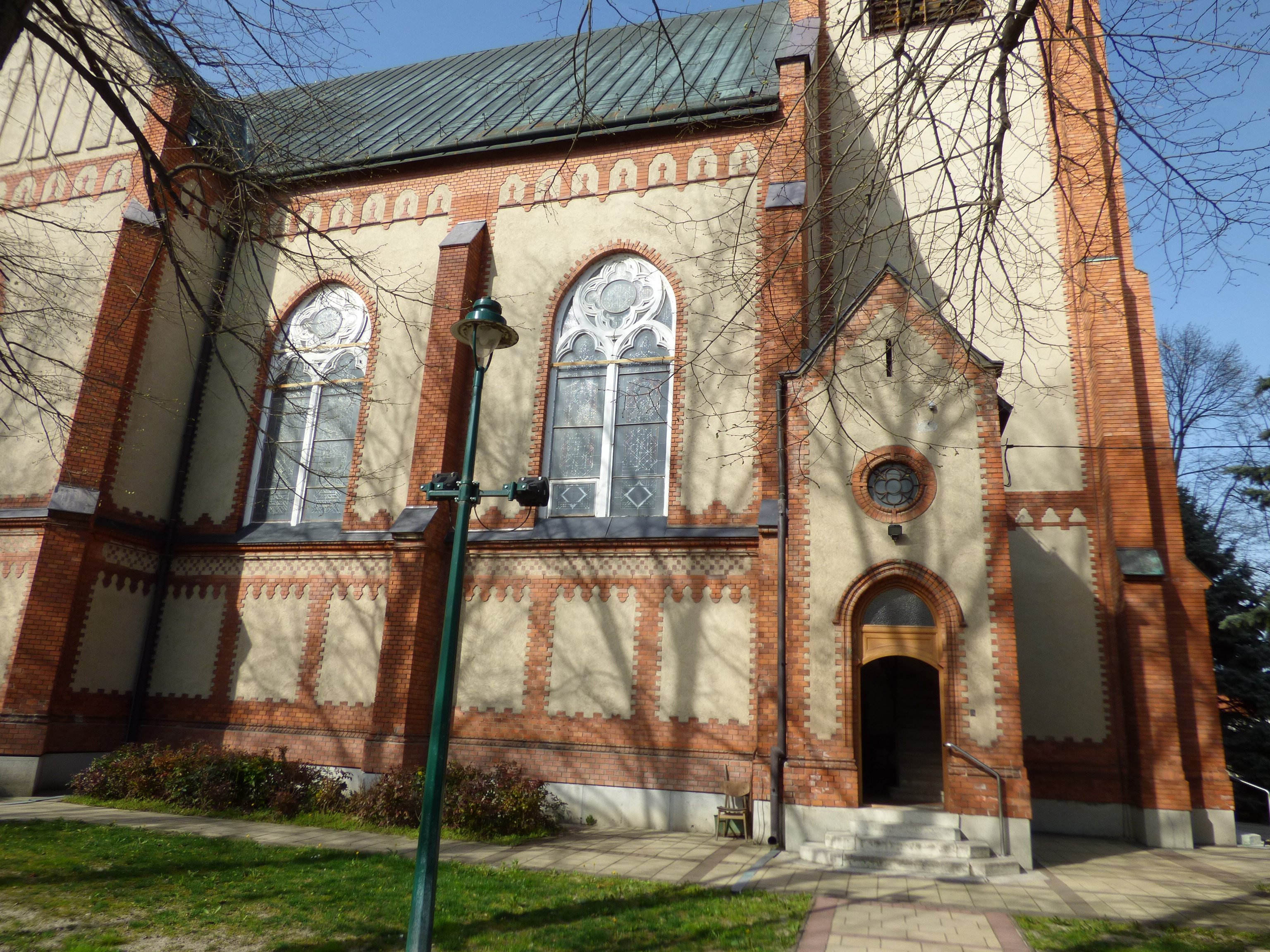 A dunaharaszti templom déli homlokzatának részlete